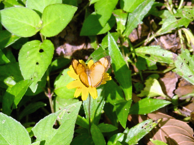 Butterfly pollinating a Sphagneticola trilobata. Photo by M. A. P. Accardo Filho.